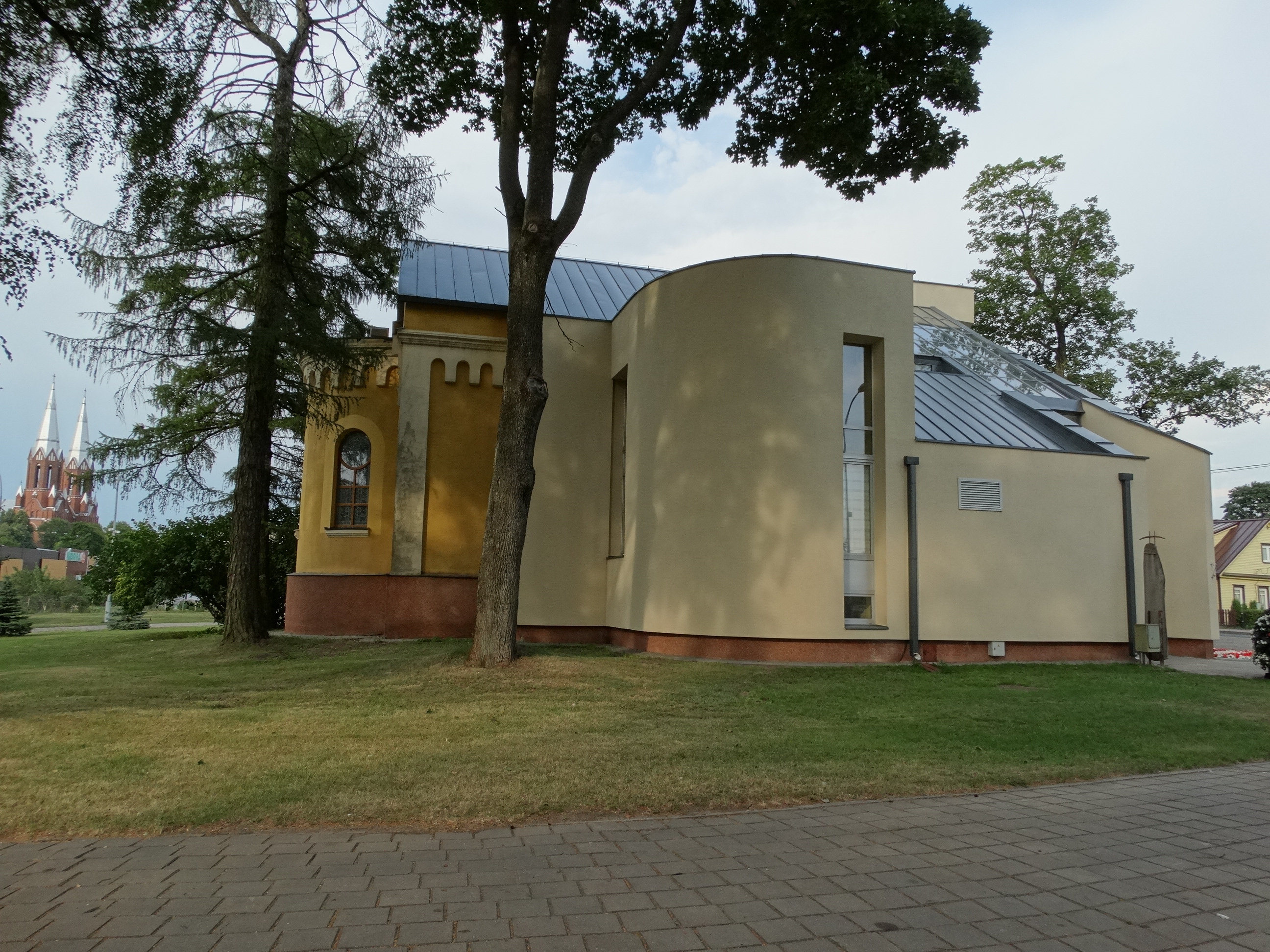 Chapel, Anykščiai, Lithuania